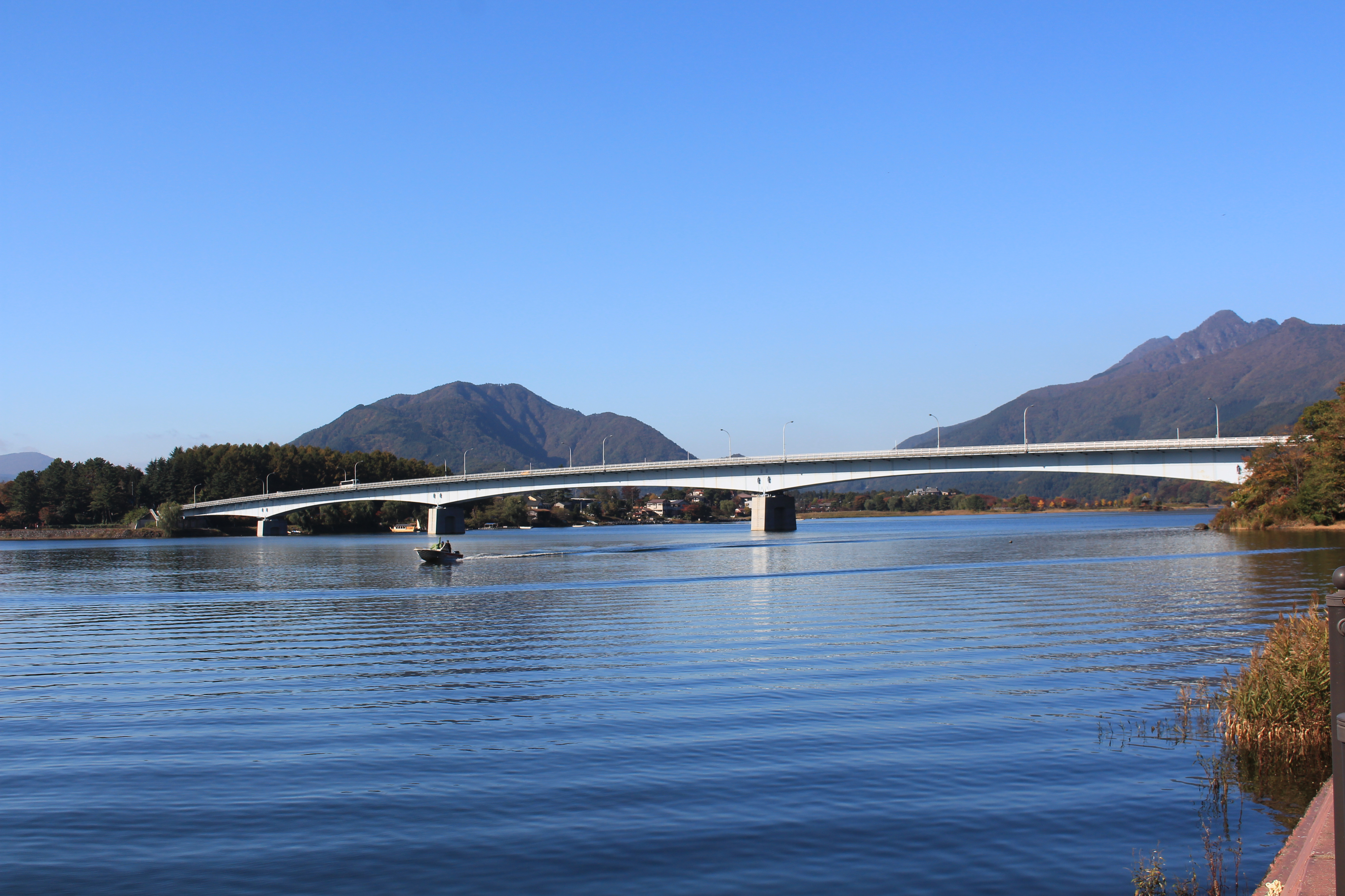 Kawaguchiko Bridge in Fujikawaguchiko, Yamanashi prefecture, Japan.